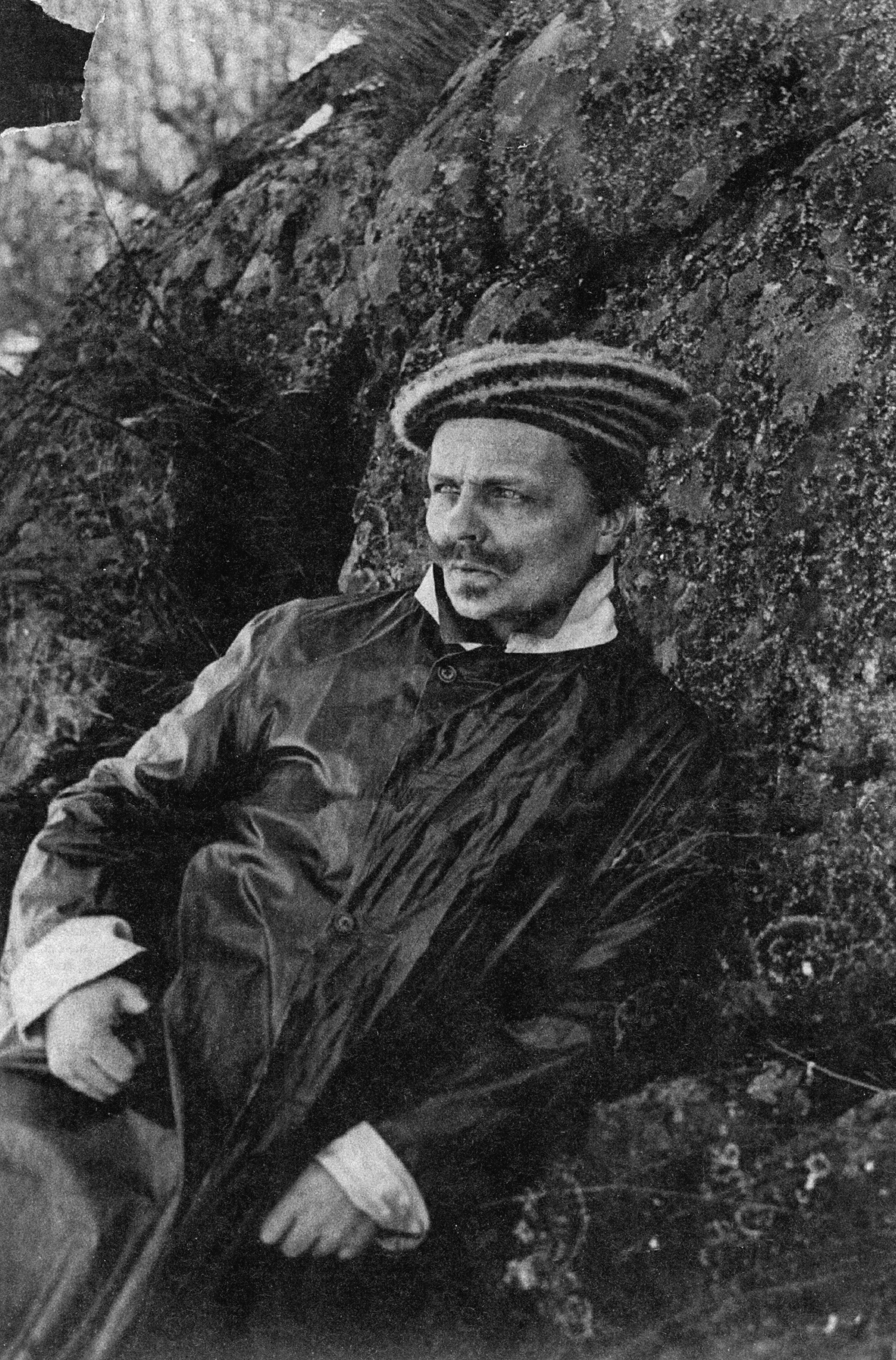 Self-portrait of Swedish writer August Strindberg at Värmdö-Brevik, Tyresö, in 1891.